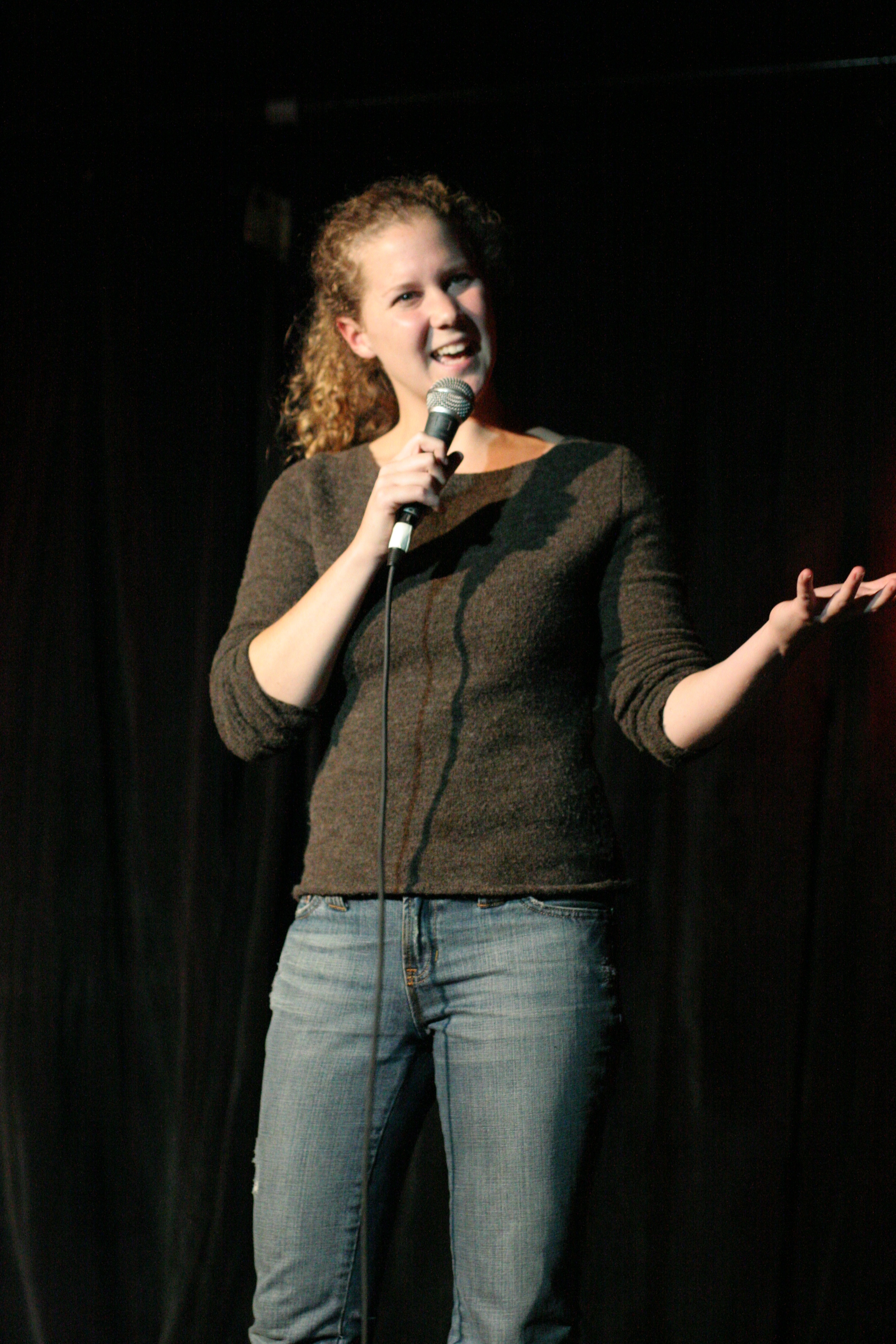 American stand-up comedian Amy Schumer.The Drink At Work Show 11/13/06